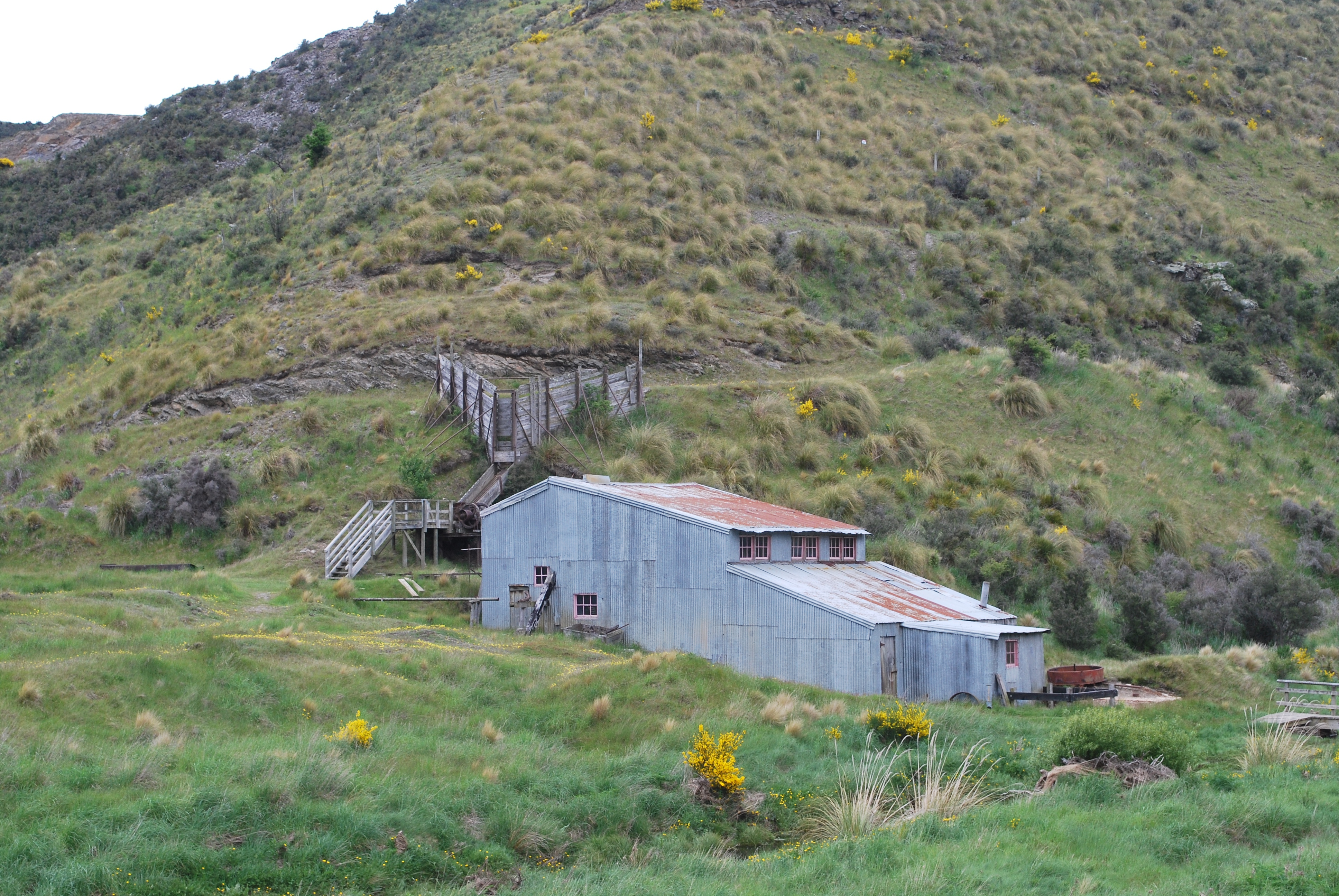 Callery's battery at the Golden Point Mine Historic Area near Macraes Flat, New Zealand